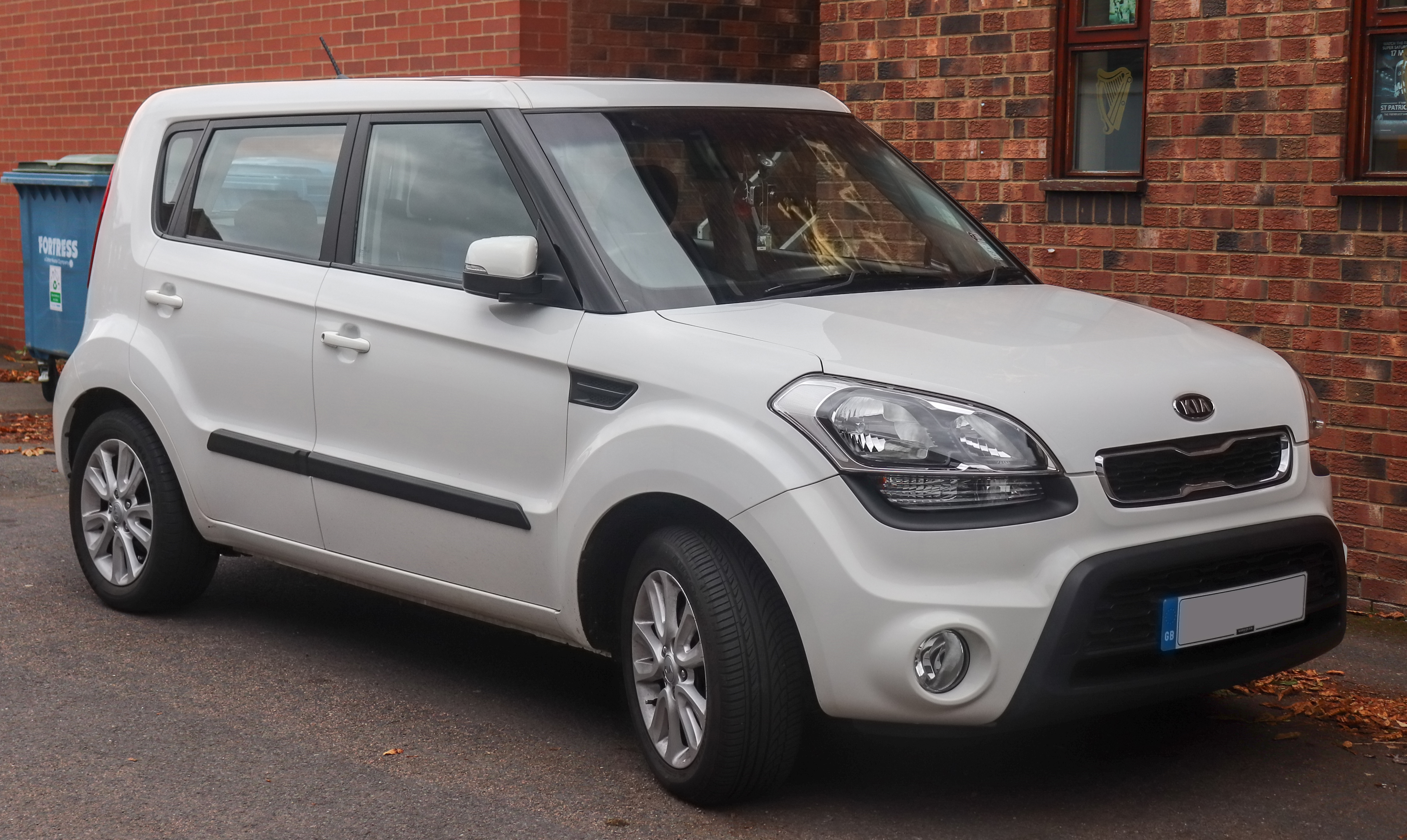 2012 Kia Soul 2 1.6 Front Taken in Leamington Spa